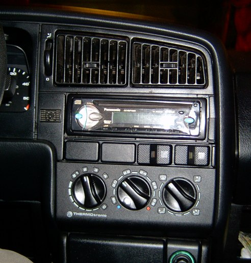 VW Passat thermotronic panel